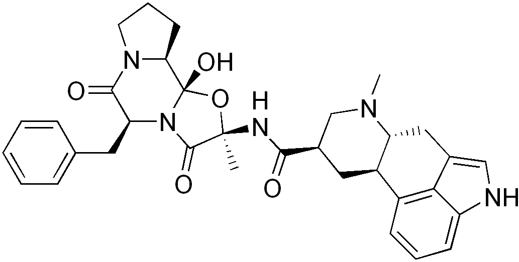 chemical structure of dihydroergotamine